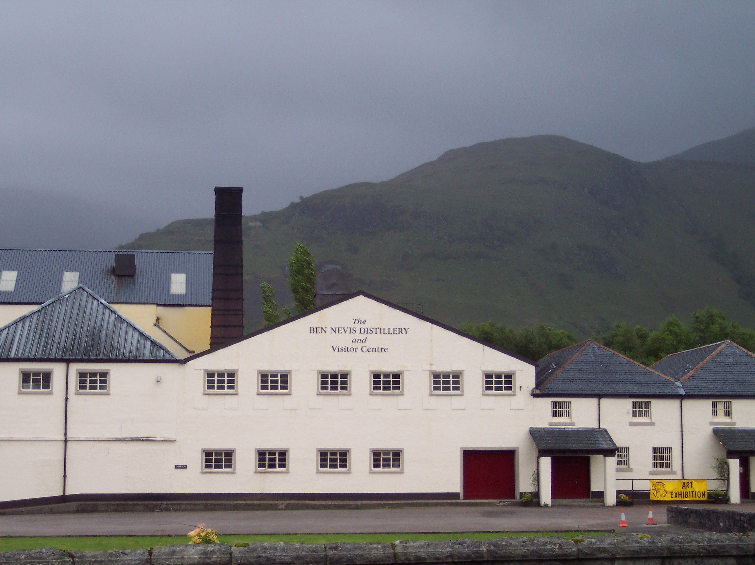 Ben Nevis Distillery